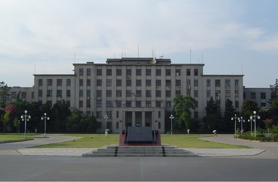 A view of Anhui University from inside the south gate. Taken by the uploader, July 2004.